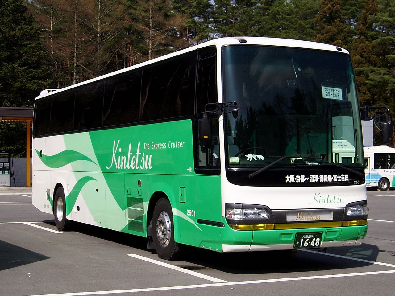 Kintetsu 2501 "Fujiyama Liner" Hino KL-RU4FSEA at Fujikyu Kawaguchiko Branch. This picture is obtaining and photoing permission of the persons concerned.